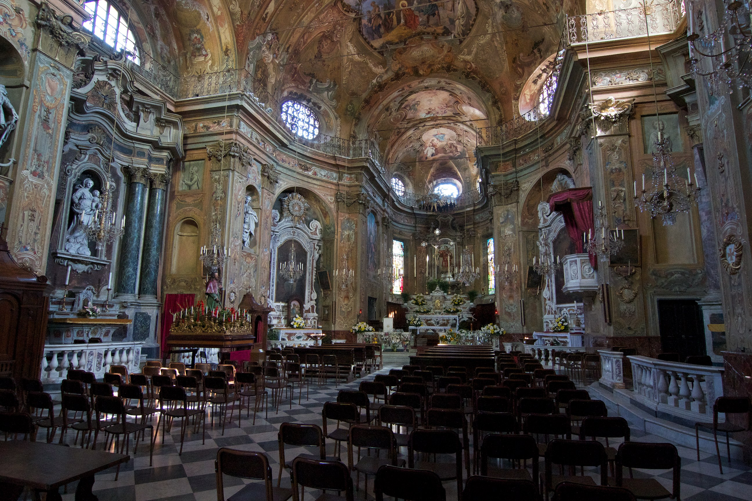 Another view of the interior of the church